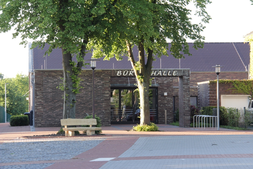 Bürgerhalle Wettringen, 14.04.2014